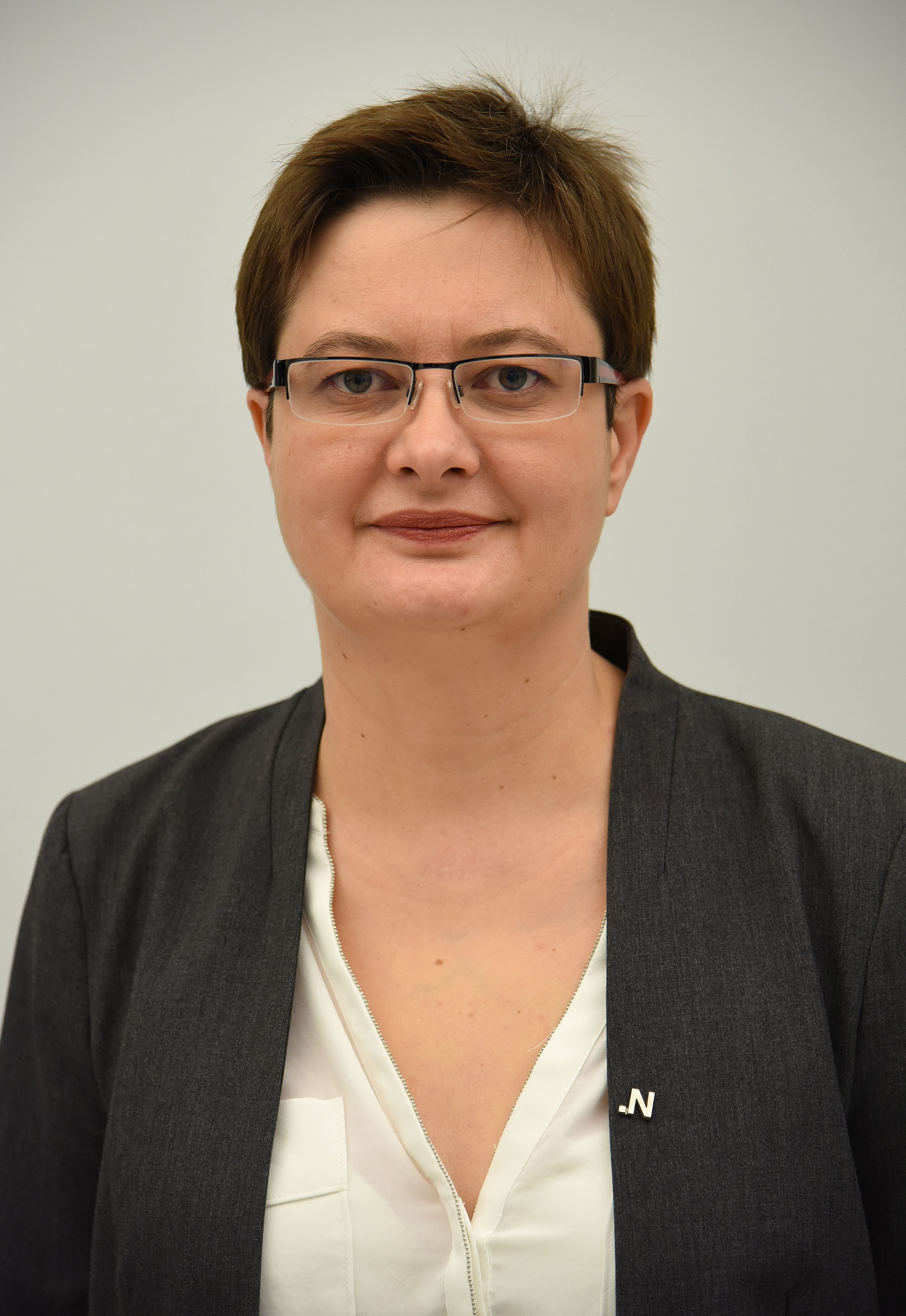 Polish MP Katarzyna Lubnauer in the Sejm